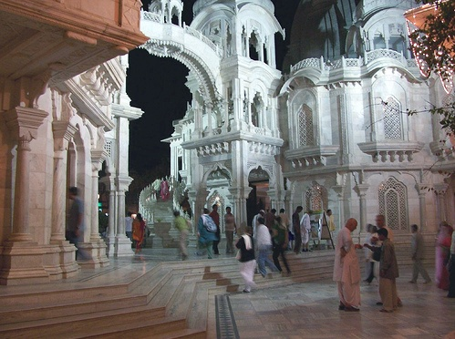 Photo from personal archive 2001